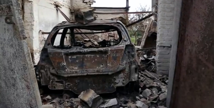 Burned car in Ilovaisk, Donetsk region, August 18, 2014.